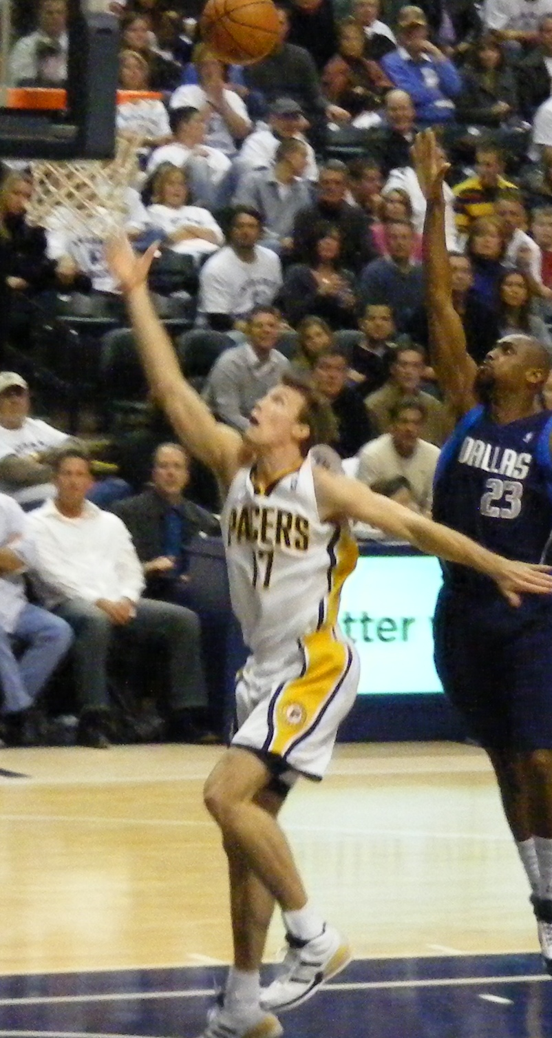 Mike Dunleavy Jr. Driving to the basket for a layup during a Pacers' game in December 2007.